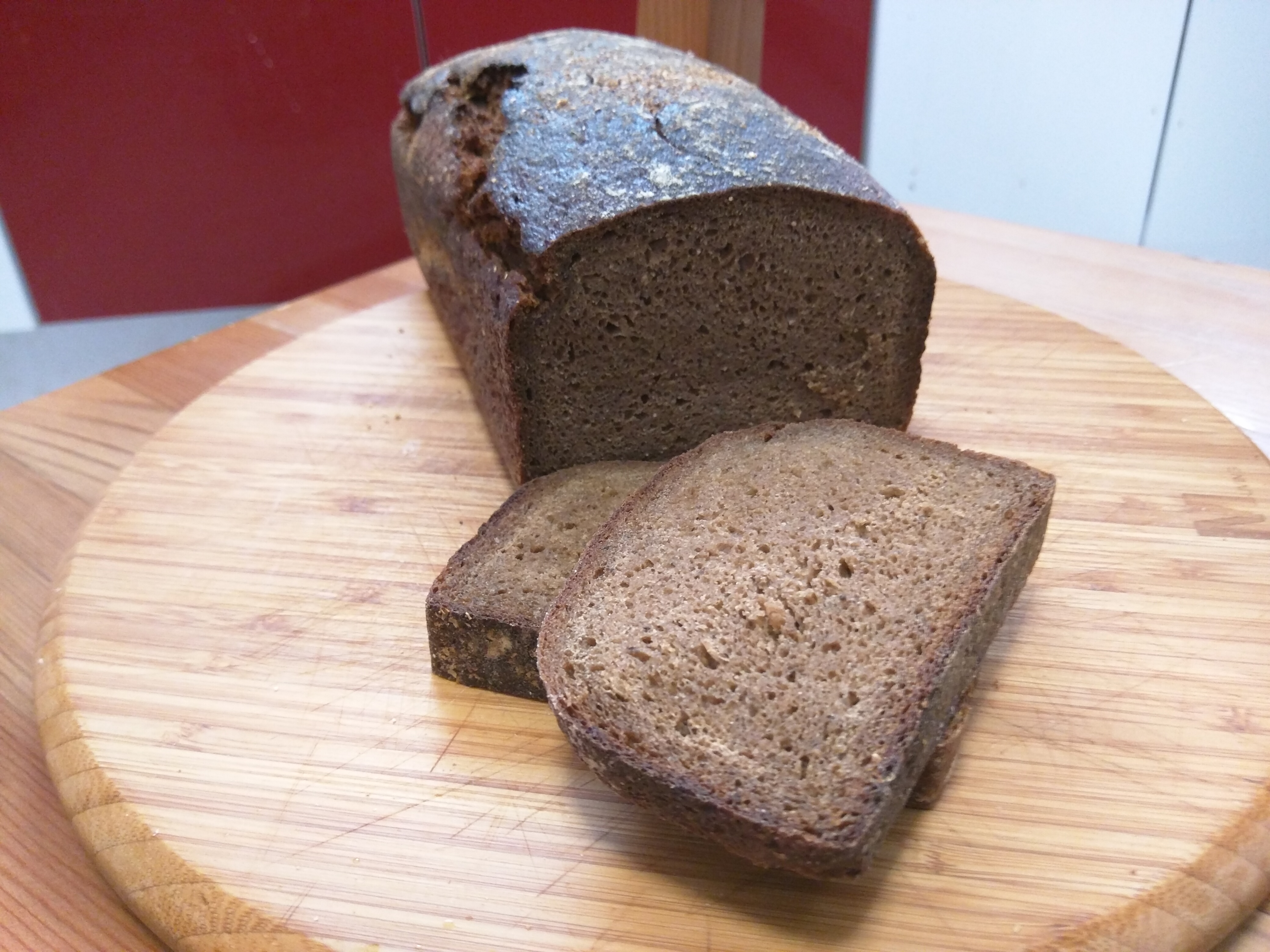 Rye bread